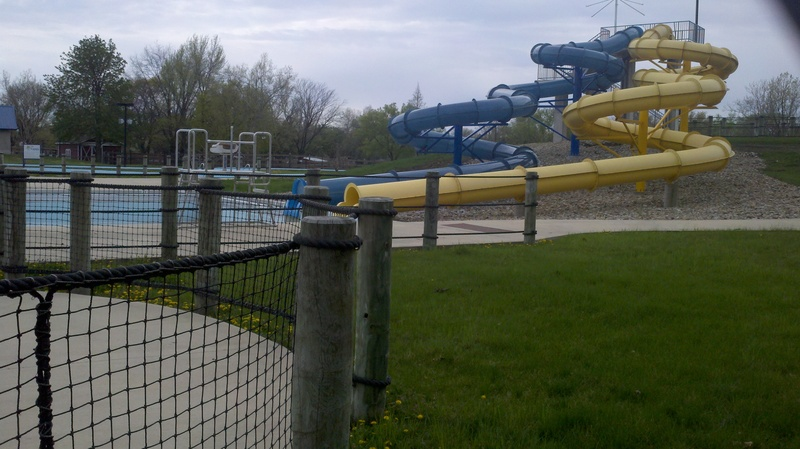 Water slides at the Sholem Aquatic Center in Champaign, Illinois